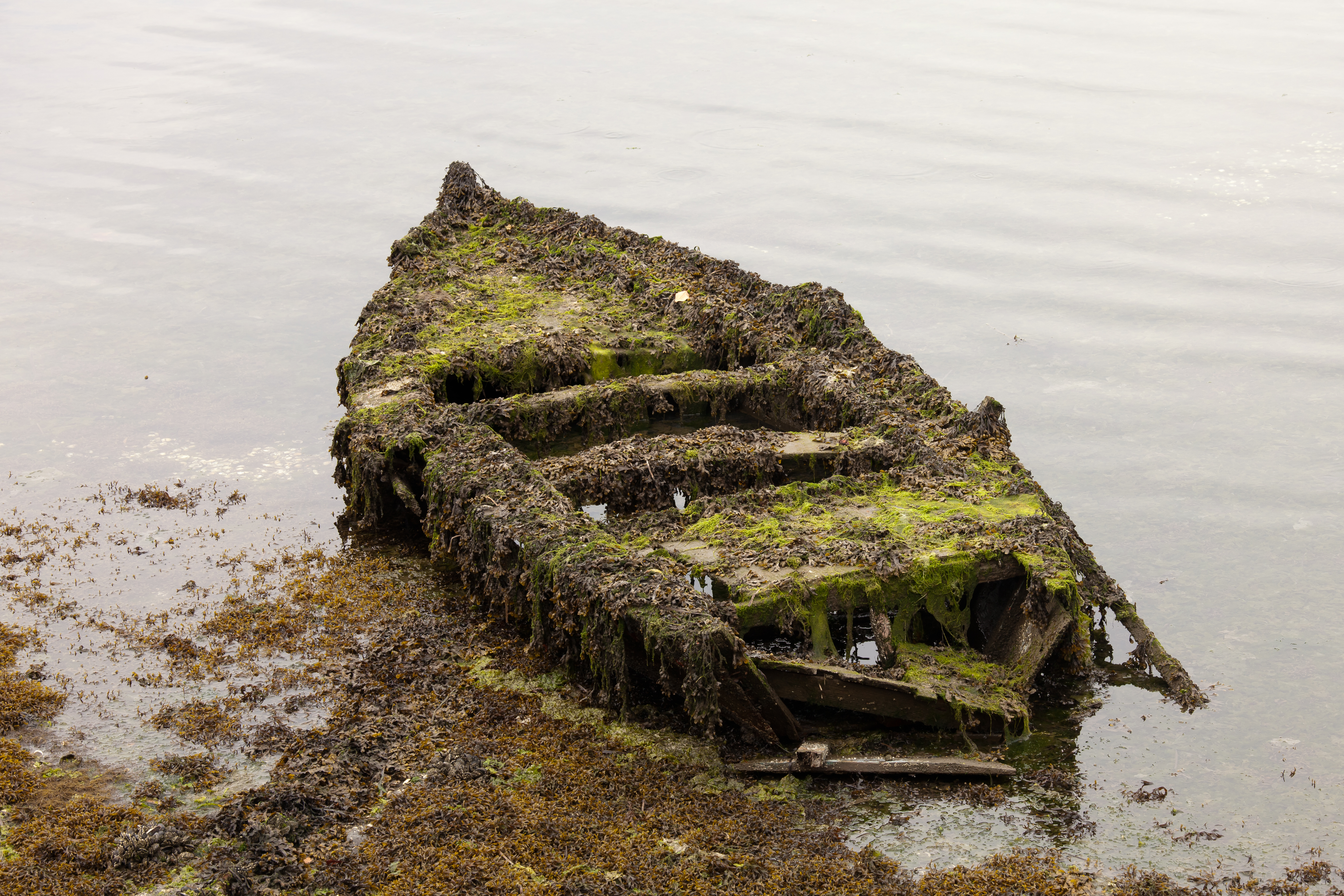 Santiago do Carril, Vilagarcía de Arousa, Galicia.